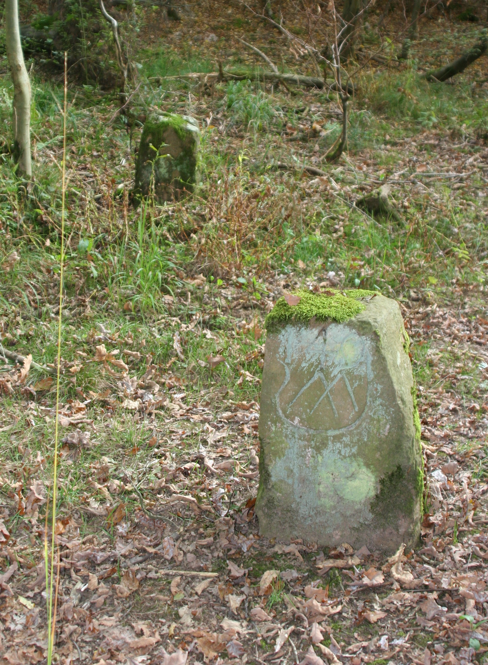 The so-called Doppelt versteinte Hällische Straße (road with two rows of boundary stones) between Weinsberg and Heilbronn